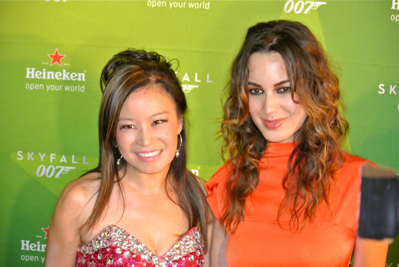 5 FM and SABC3 Expresso presenter Jen Su is on the red carpet with Berenice Marlohe, the new Bond girl in the latest 007 movie Skyfall. The movie is the most successful of all time in the James Bond series.